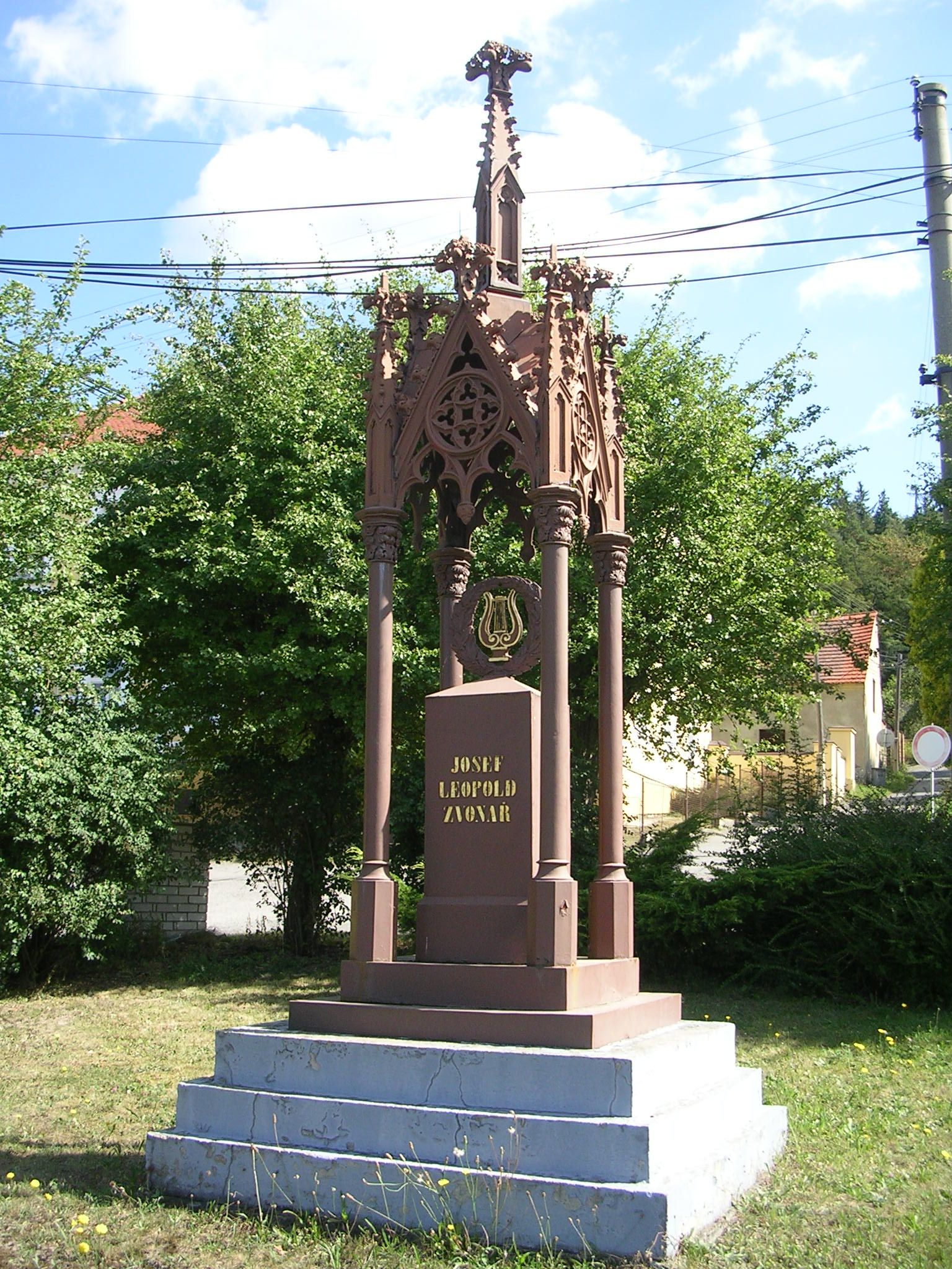 Kublov, Beroun District, Central Bohemian Region, the Czech Republic. A memorial of composer Josef Leopold Zvonař.